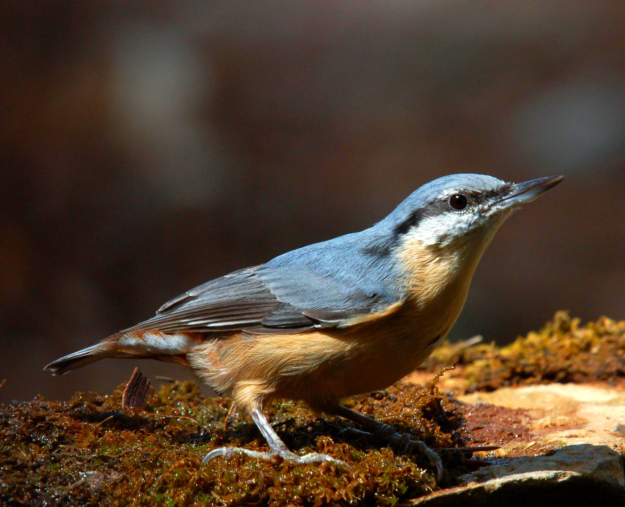 Eurasian Nuthatch Sitta europaea hispaniensis in Andalicia, Spain.